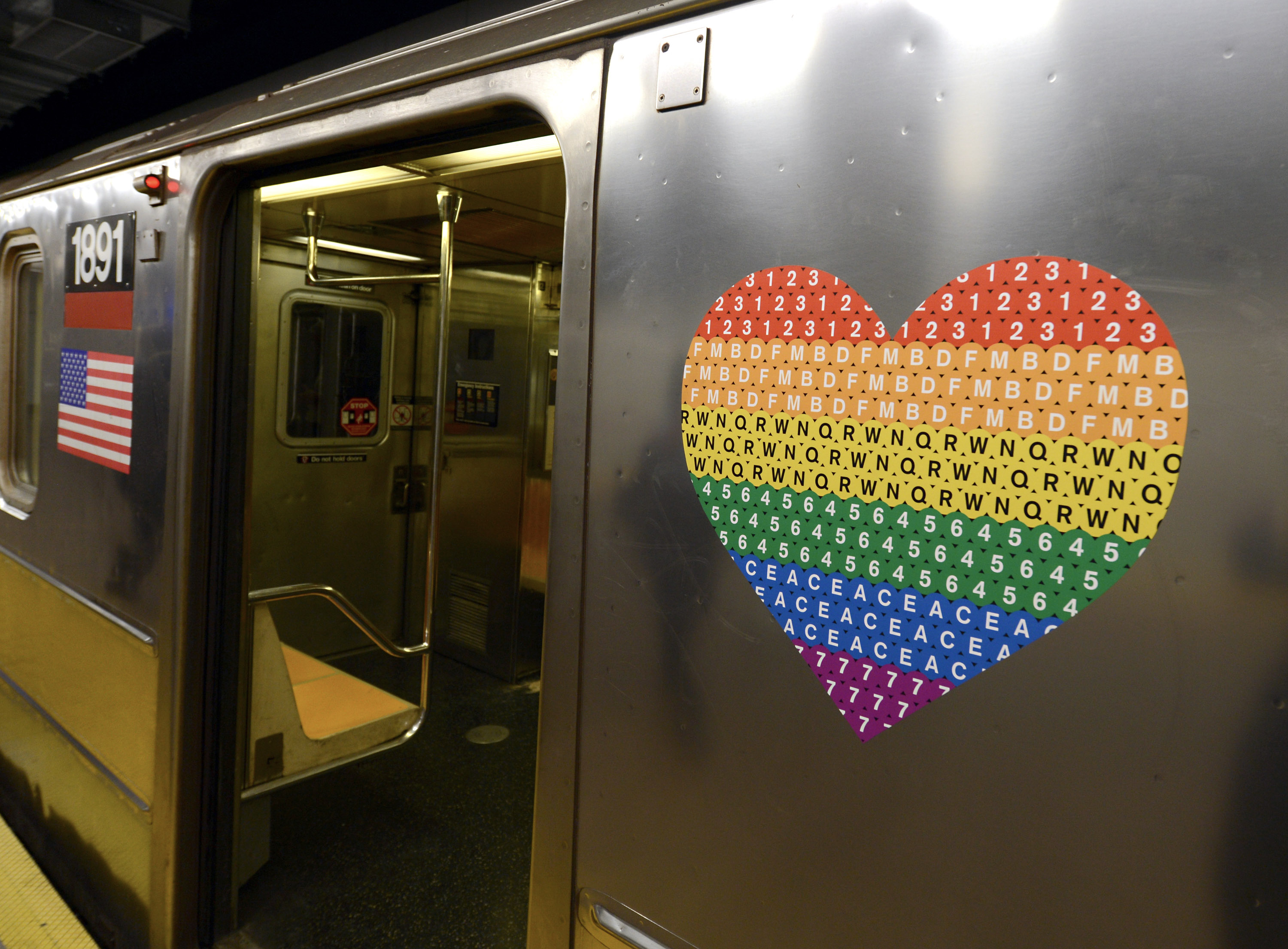 50 cars for 50 years after Stonewall: Have you seen one of the 50 subway cars on the 1 line that's riding with pride? A new MTA Pride logo is on the sides of five 10-car trains serving the 1 line, for a total of 50 cars to celebrate the 50th anniversary of the Stonewall Uprising. These decals are courtesy of MTA’s marketing partner, Outfront Media, which paid for the printing and application. The logo was designed with love by Transit staff. Photo: Marc A. Hermann / MTA New York City Transit